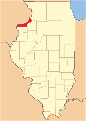 Locator Map of Rock Island County, Illinois, 1831. Based on: Illinois Secretary of State. Origin and Evolution of Illinois Counties. March 2010. p. 51.